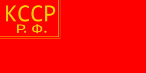 Kazak Autonomous Socialist Soviet Republic flag